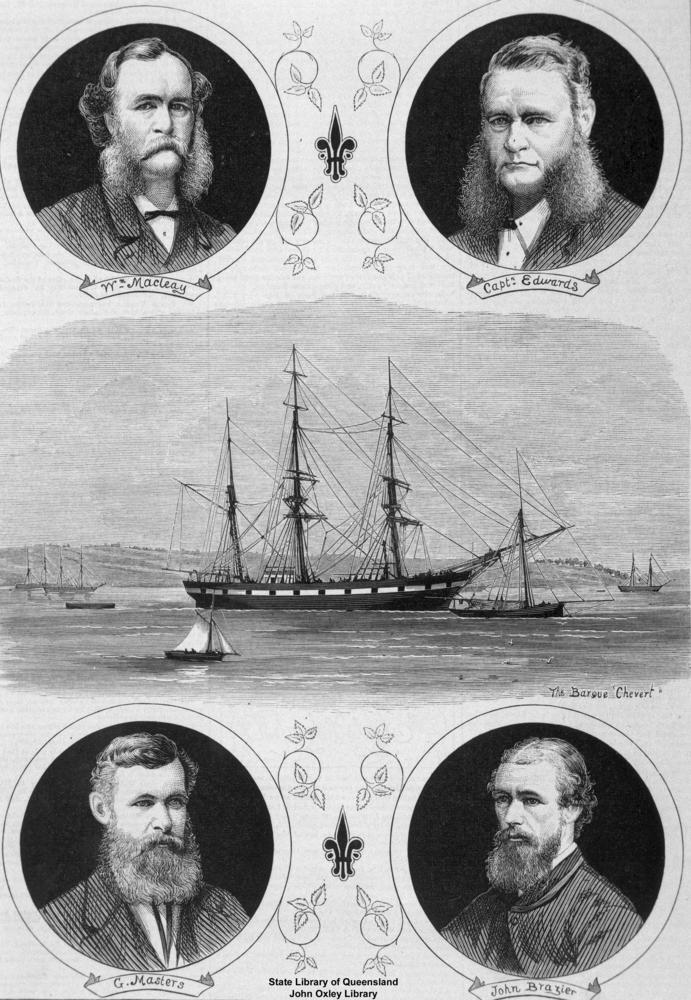 Chevert (ship) The New Guinea Expedition. Portraits, top row: Wm. Macleay, Captn. Edwards; bottom row: G. Masters, John Brazier.